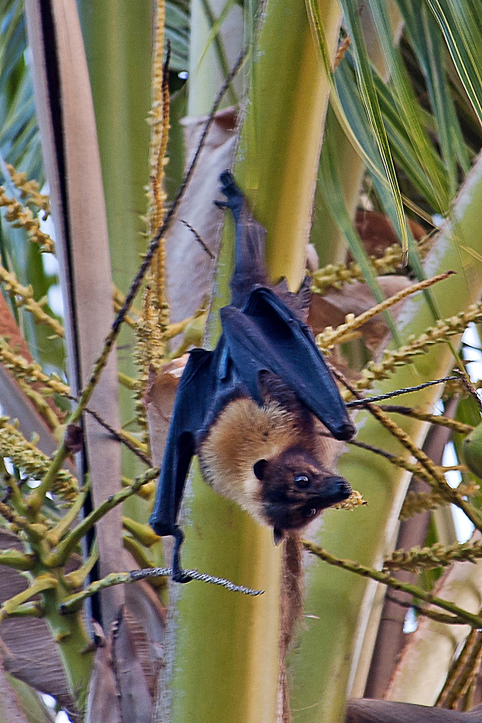 Samoan flying fox (Pteropus samoensis)